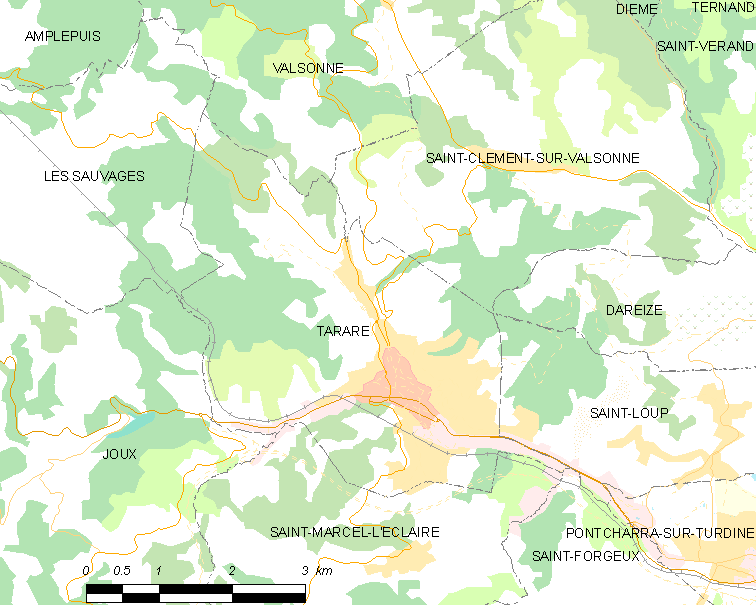 Map of French municipality